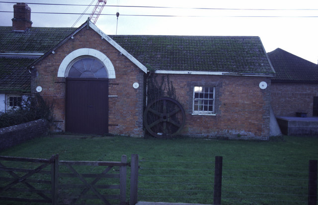 North Moor Pumping Station This was originally steam, later diesel and now electric. When I took the picture the two Ruston diesels were hammering away on a wet January day. The crane in the background is building the replacement electric pumping station.